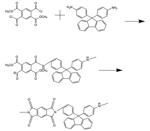 2 step sys